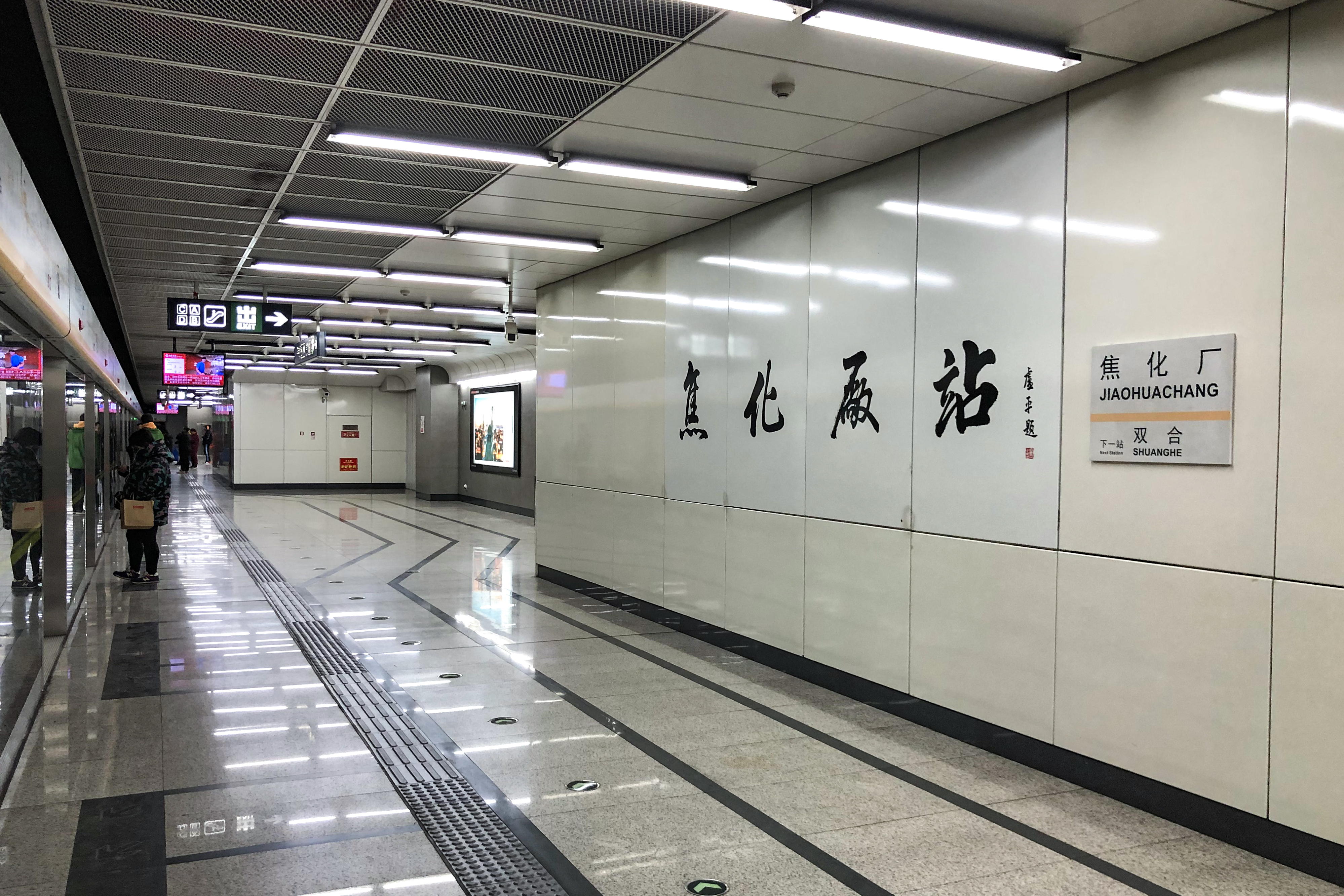 I think the trains are now arriving from Universal Beijing Resort, the new terminus. Well, who wrote this? Lupin?